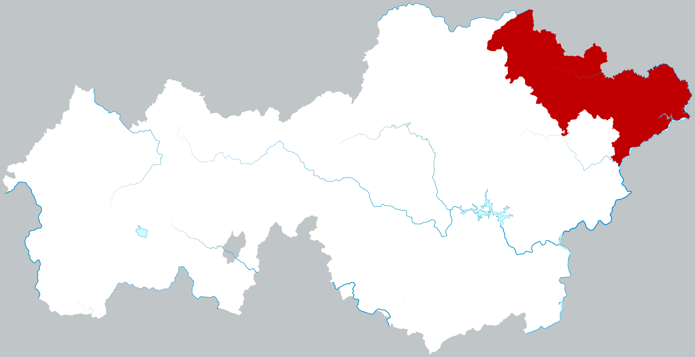 Location of Jinsha county in Bijie city, China